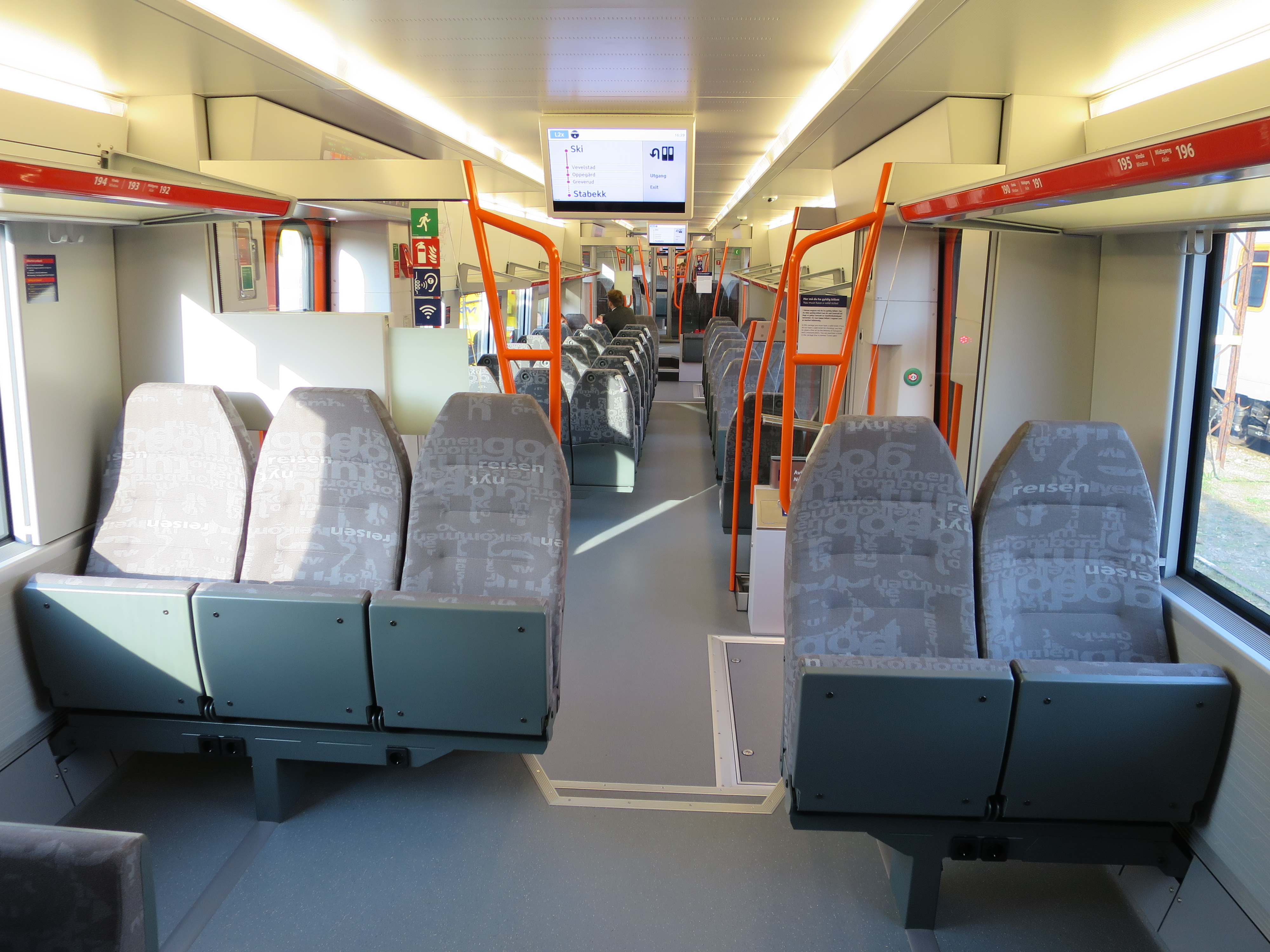 The making of this document was supported by Wikimedia Polska Association, within Wikigrant no. WG 2017-44. Stadler FLIRT NSB 75551